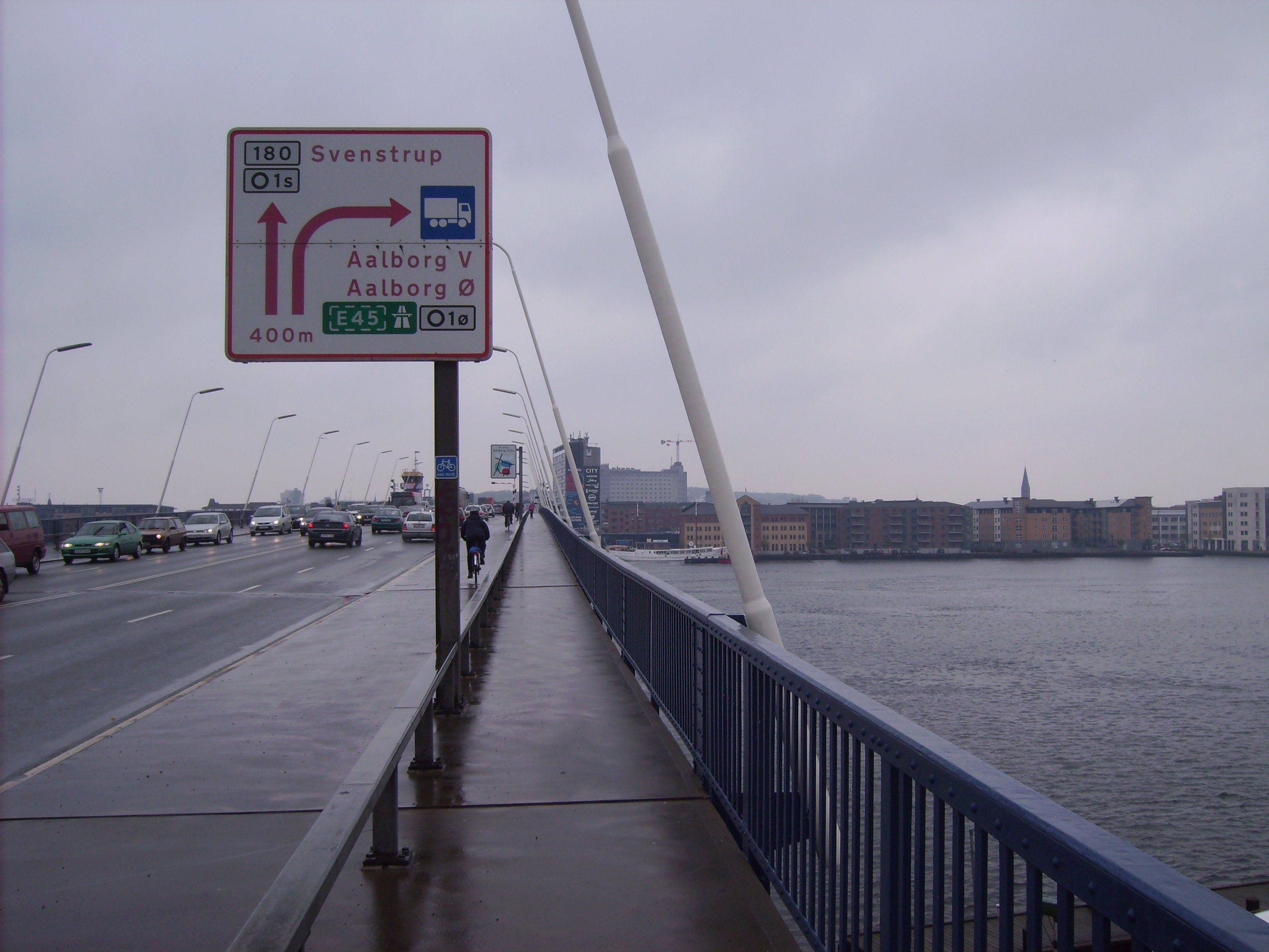 Limfjorden in Aalborg, Denmark. Limfjord is a strait separating Jutland from Vendsyssel and dividing, among others Aalborg and Nørresundby (Danish towns).